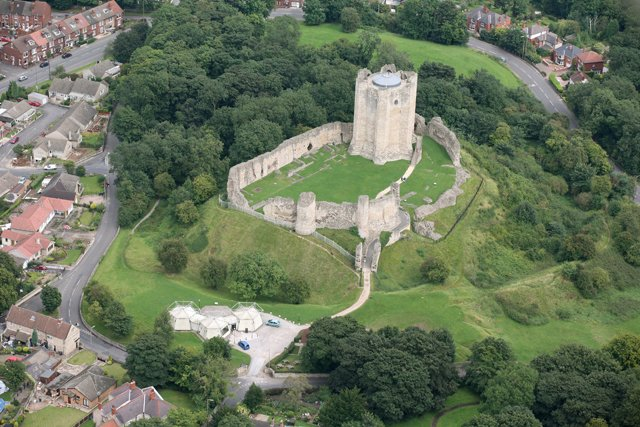 Aerial view of Conisbrough Castle